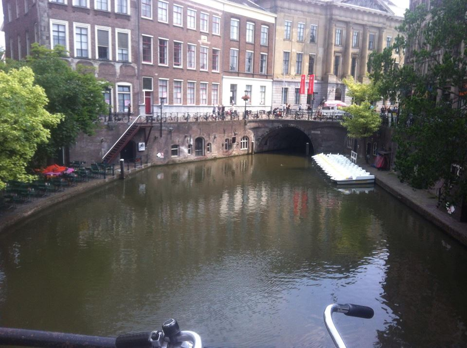 Canal in Utrecht